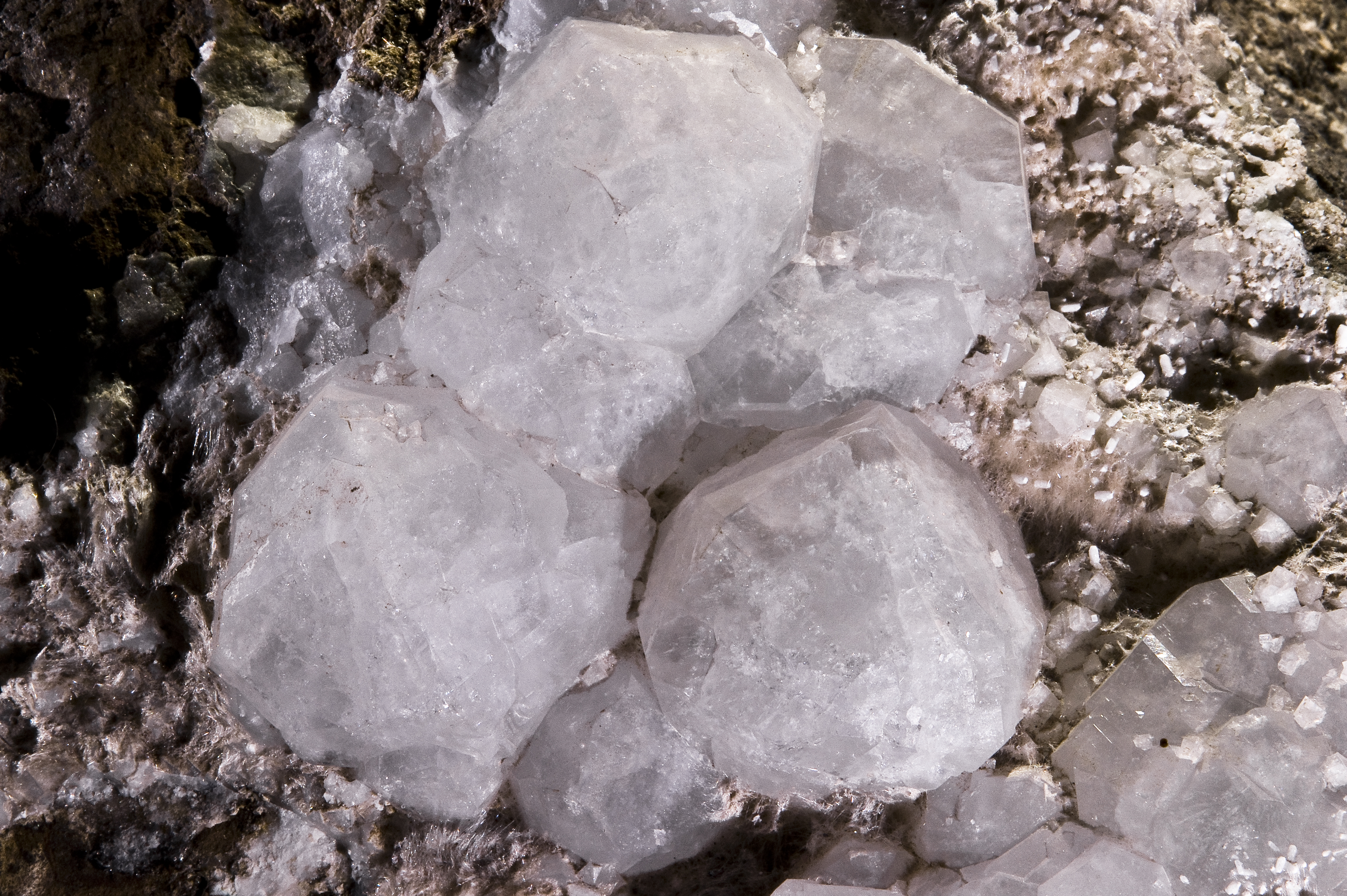 Analcime Locality : Martinique, Lesser Antilles, French West Indies Size 13x9cm XX5cm